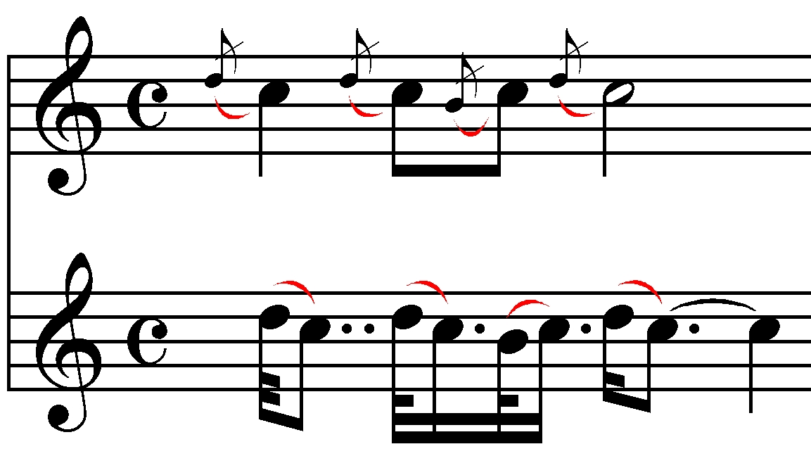 Acciaccatura classica with resolutions